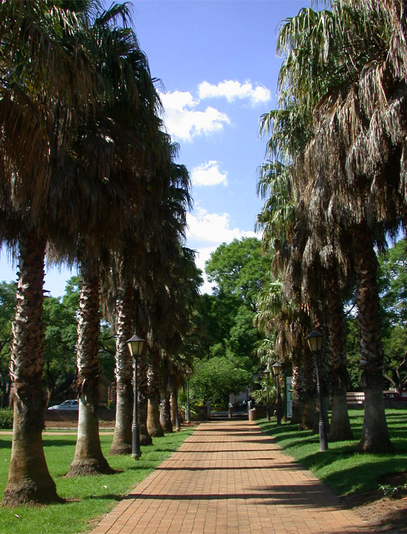 A lane of palm trees in Venning Park, between Pretorius and Schoeman Streets, Arcadia, Pretoria, South Africa